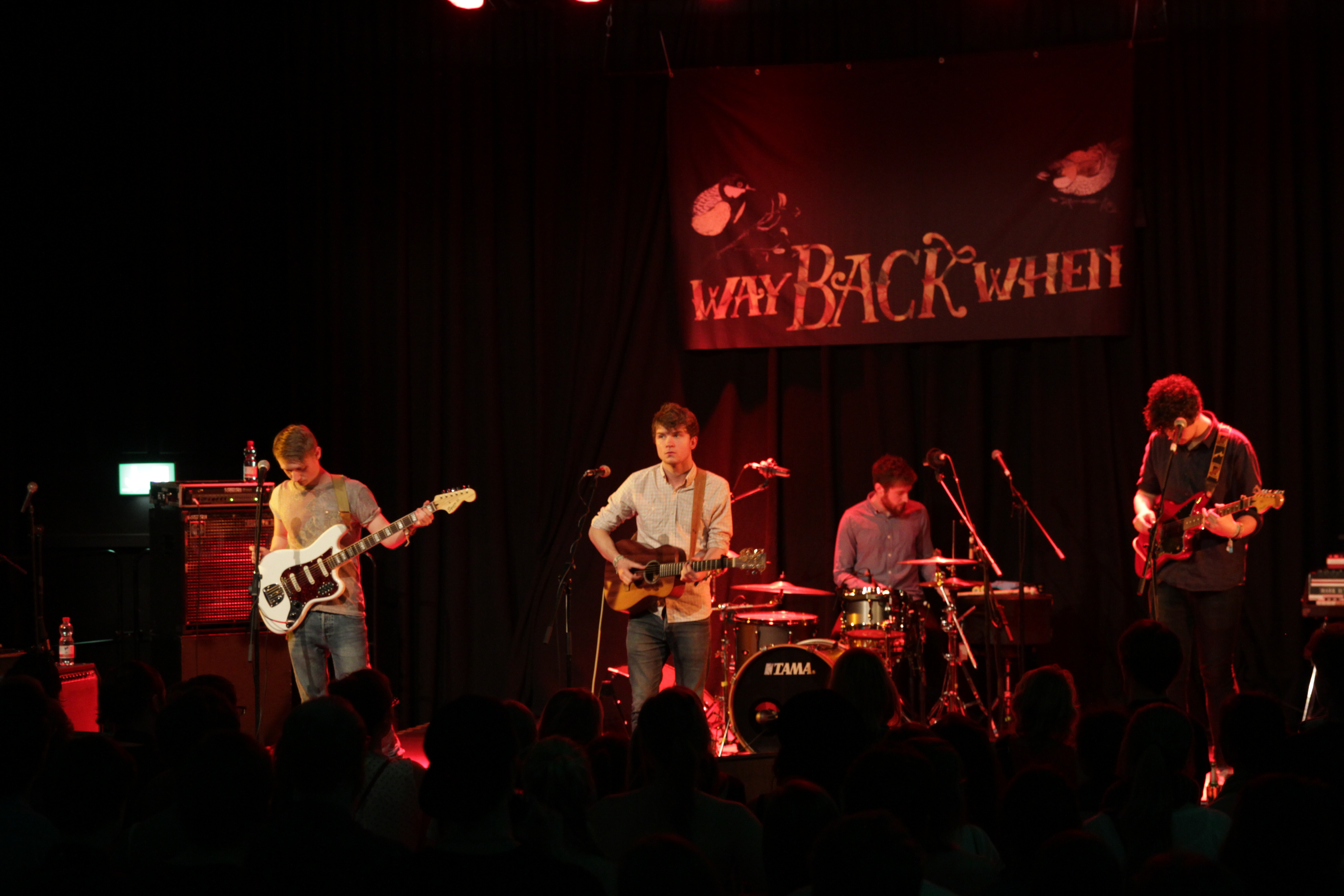 All the Luck in the World auf dem Way Back When Festival 2014.